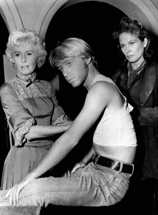 Photo of Barbara Stanwyck (Victoria Barkley) with guest stars Michael Burns and Colleen Dewhurst in the episode "A Day of Terror" from the television program The Big Valley.